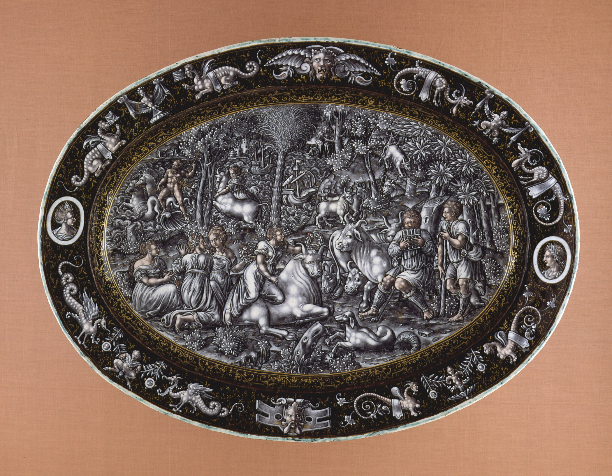 France, Limoges, circa 1560 Furnishings; Serviceware Grisaille enamel, flesh tones, touches of color, and gold on copper William Randolph Hearst Collection (48.2.17) Decorative Arts and Design Currently on public view: Ahmanson Building, floor 3